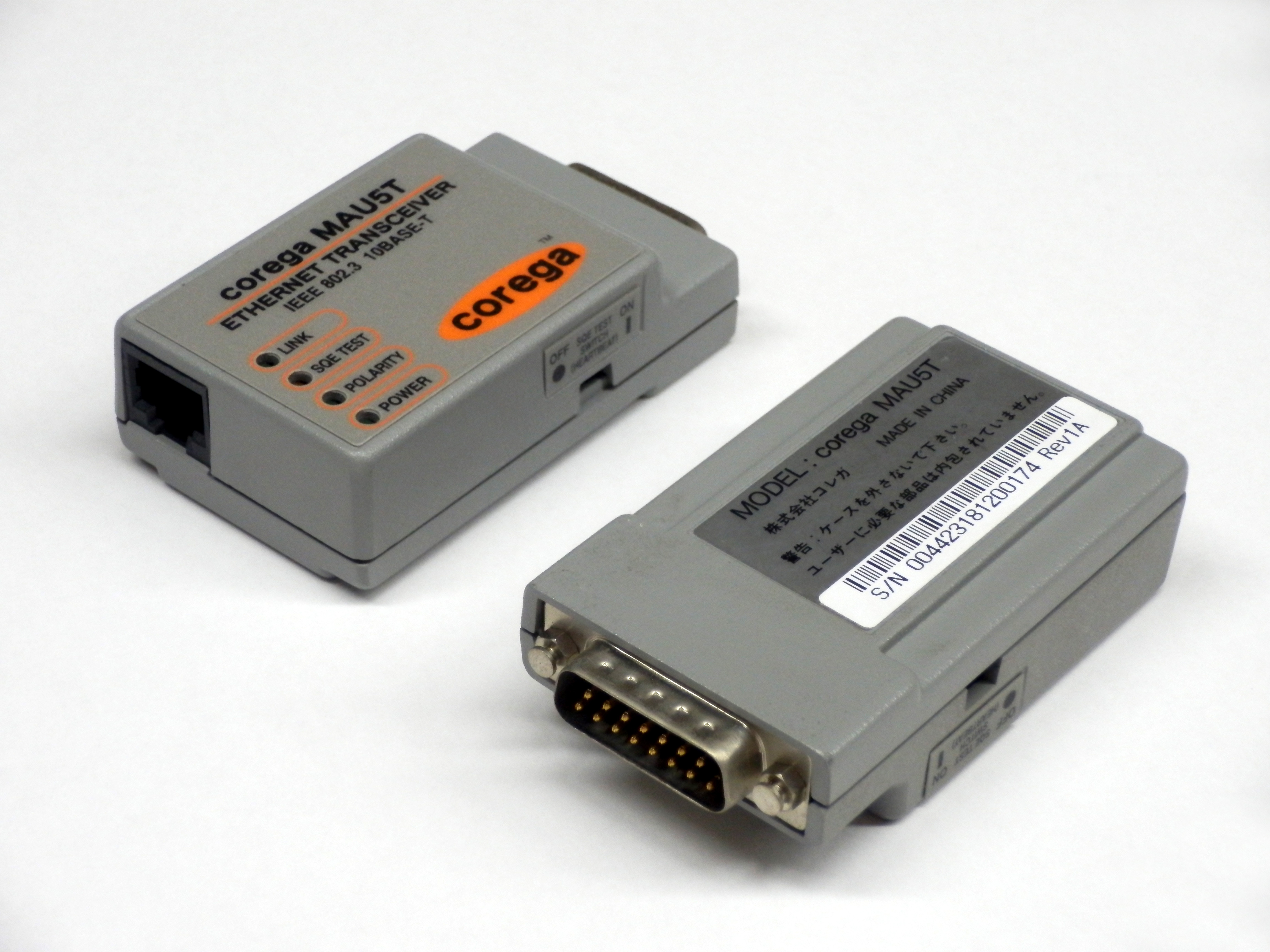 corega MAU5T (10BASE-T 10BASE5 interface)